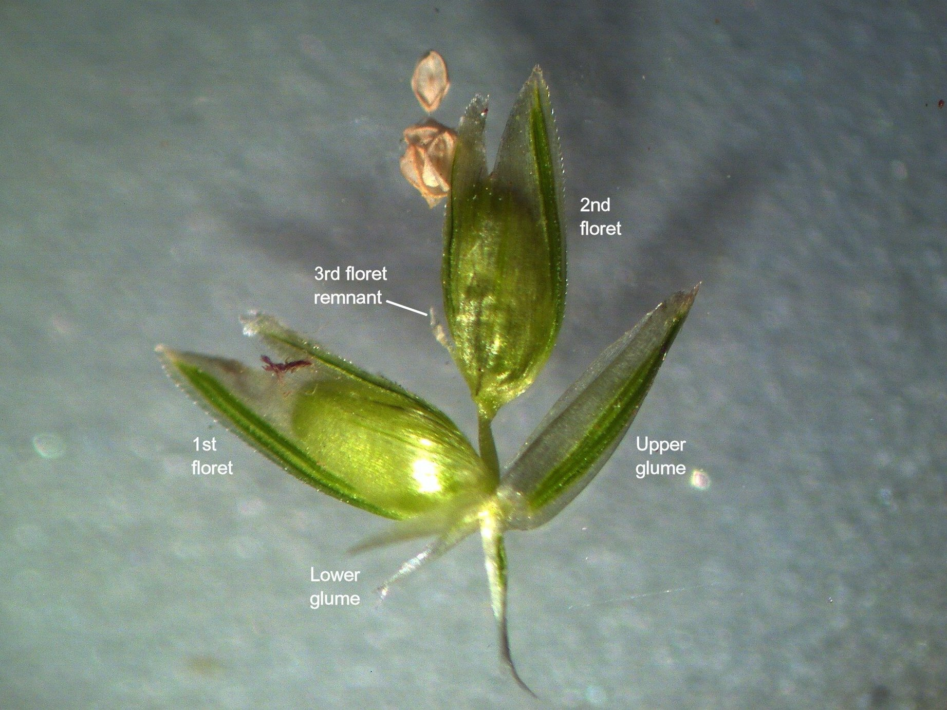 Spikelets are strongly flattened and 3–5 mm long, with several bisexual florets. Glumes are keeled, and unequal in length. Lemmas have a prominent keel and a rather acute apex. Paleas are shorter than the lemmas.